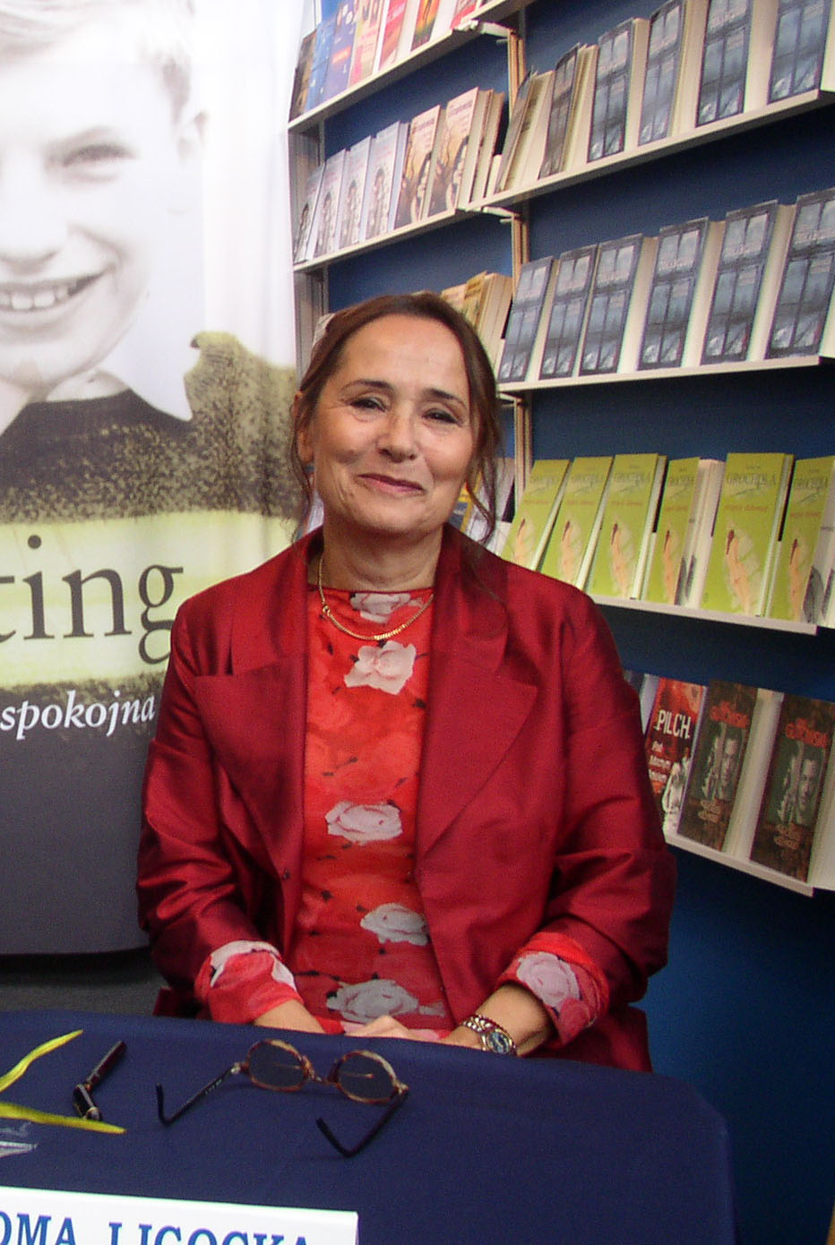 Roma Ligocka at The Cracow Book Fair in 2004